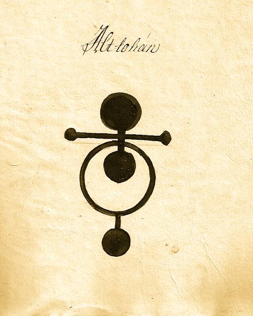 Cattle brand of Alt-Tohan/Tohanu Vechi/Ótohán